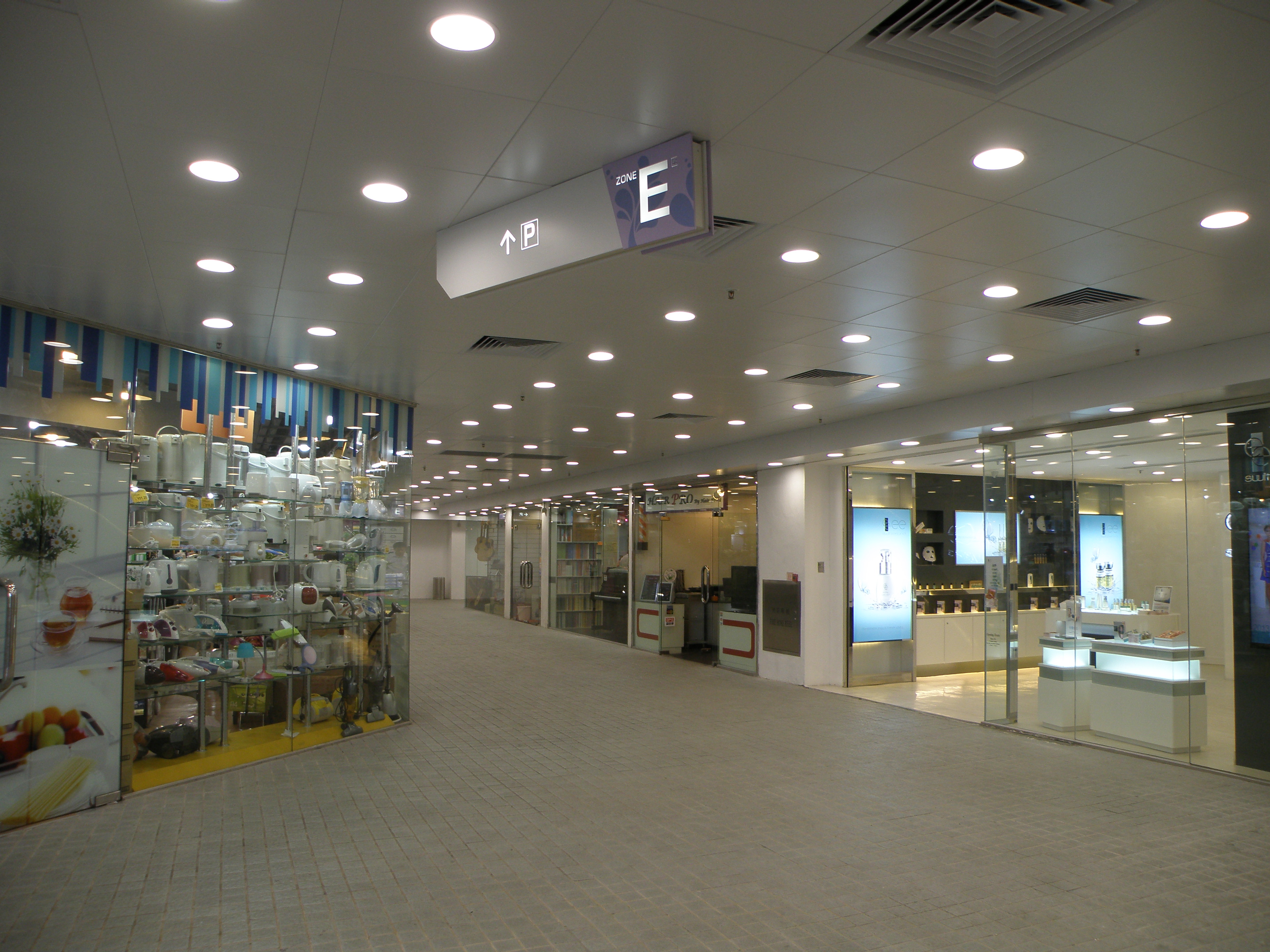 Tai Po Mega Mall Zone E in Tai Po, Hong Kong.